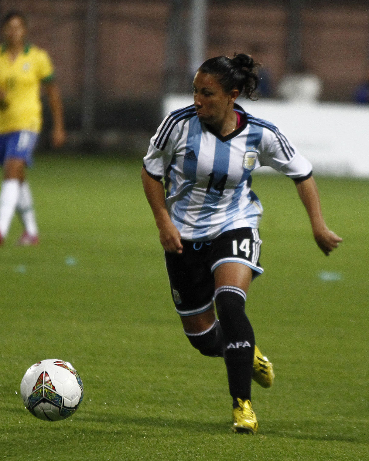 Sangolqui, 26 (Andes).- En el estadio de Sangolquí se enfrentaron las seleciones de Brasil y Argentina por la Copa Amérca Femenina Ecuador 2014, Foto: Micaela Ayala V./Andes This file comes from the Flickr stream of the Public News Agency of Ecuador and South America and is copyrighted.This file is verified as being licenced under an appropriate Creative Commons licence.In short: you are free to modify the file as long as you attribute Photographer name/Andes and distribute it under the same licence. This tag does not indicate the copyright status of the attached work. A normal copyright tag is still required. See Commons:Licensing for more information. English | español | +/−